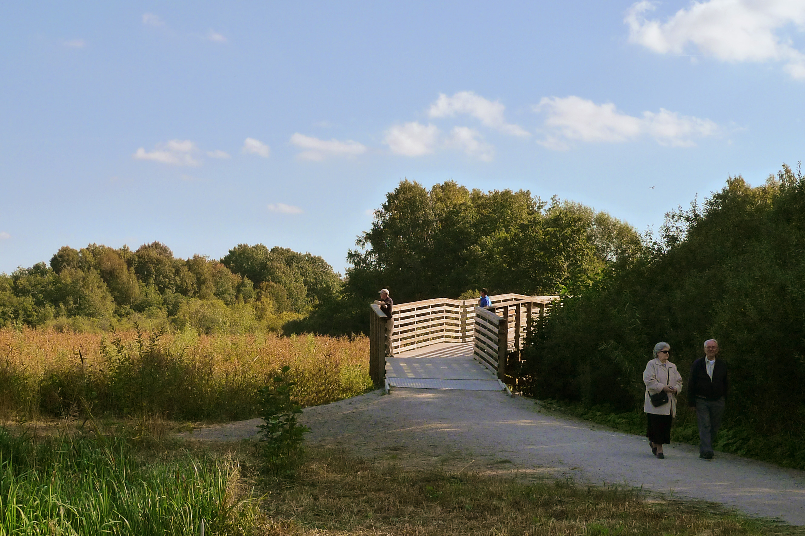 The nature park "Rynningeviken", Örebro Sweden